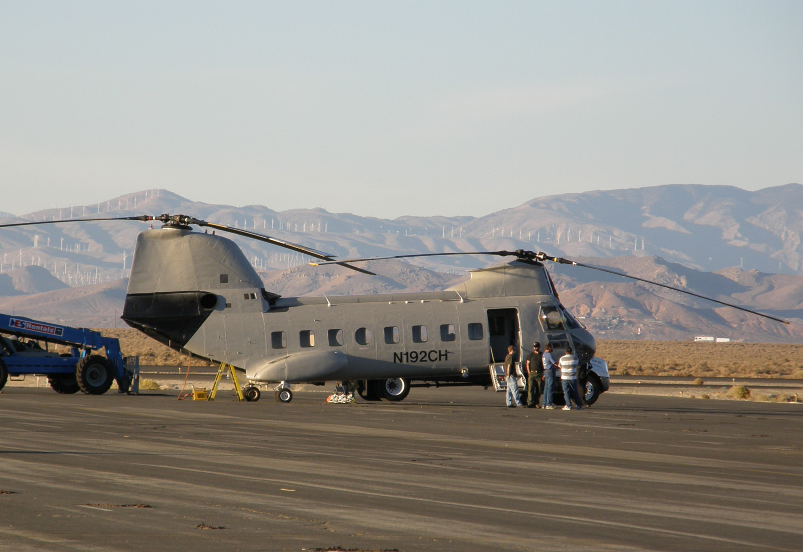 Columbia Helicopters' Kawasaki Vertol KV107II at Fox Field, Lancaster, California